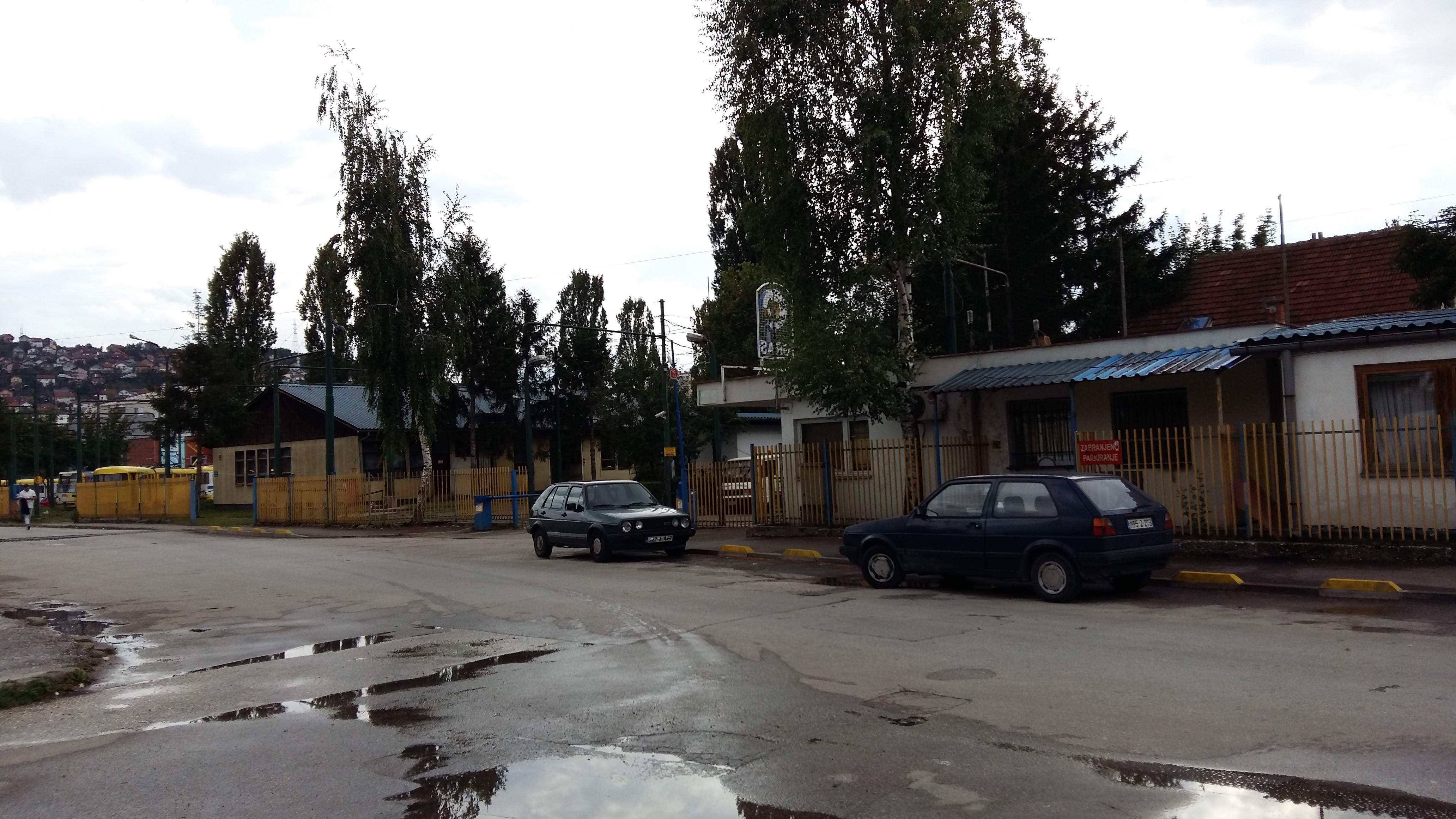 The headquarter of the sarajevo-transport company JKP GRAS.